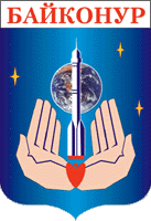 Coat of arms of Baikonur